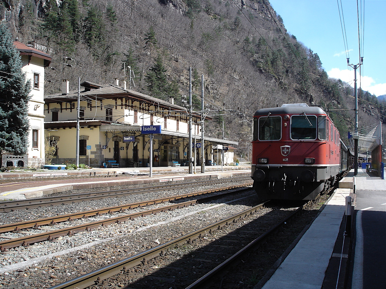 SBB CFF FFS Re 4/4 II 11132 at Iselle di Trasquera train station.